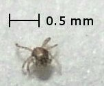 Created myself.